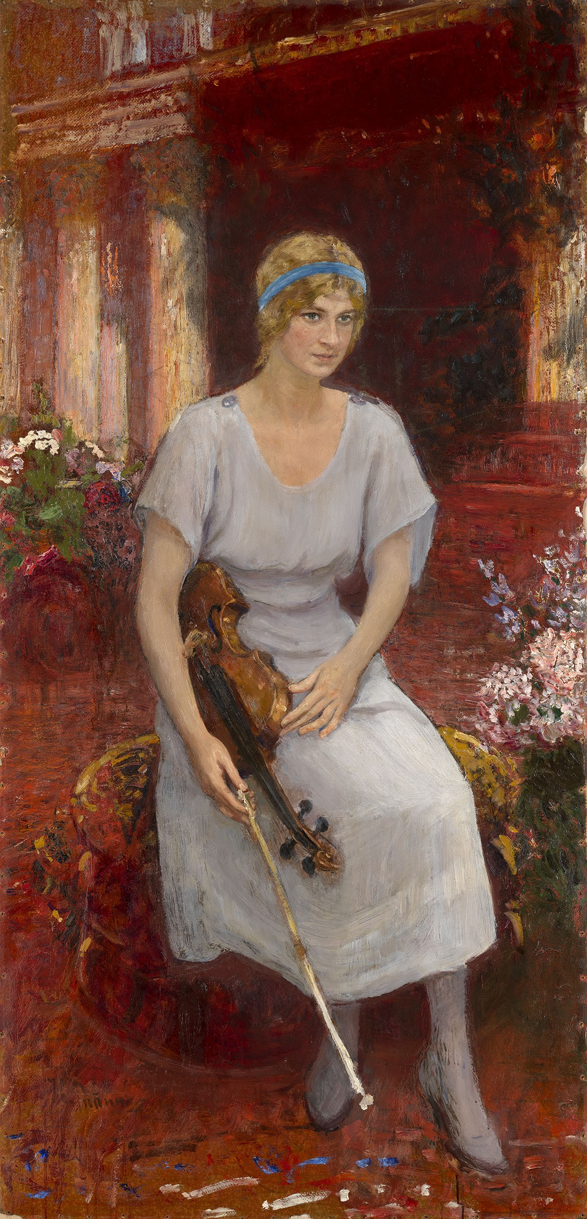 Portrait of the Violinist Cecilia Hansen